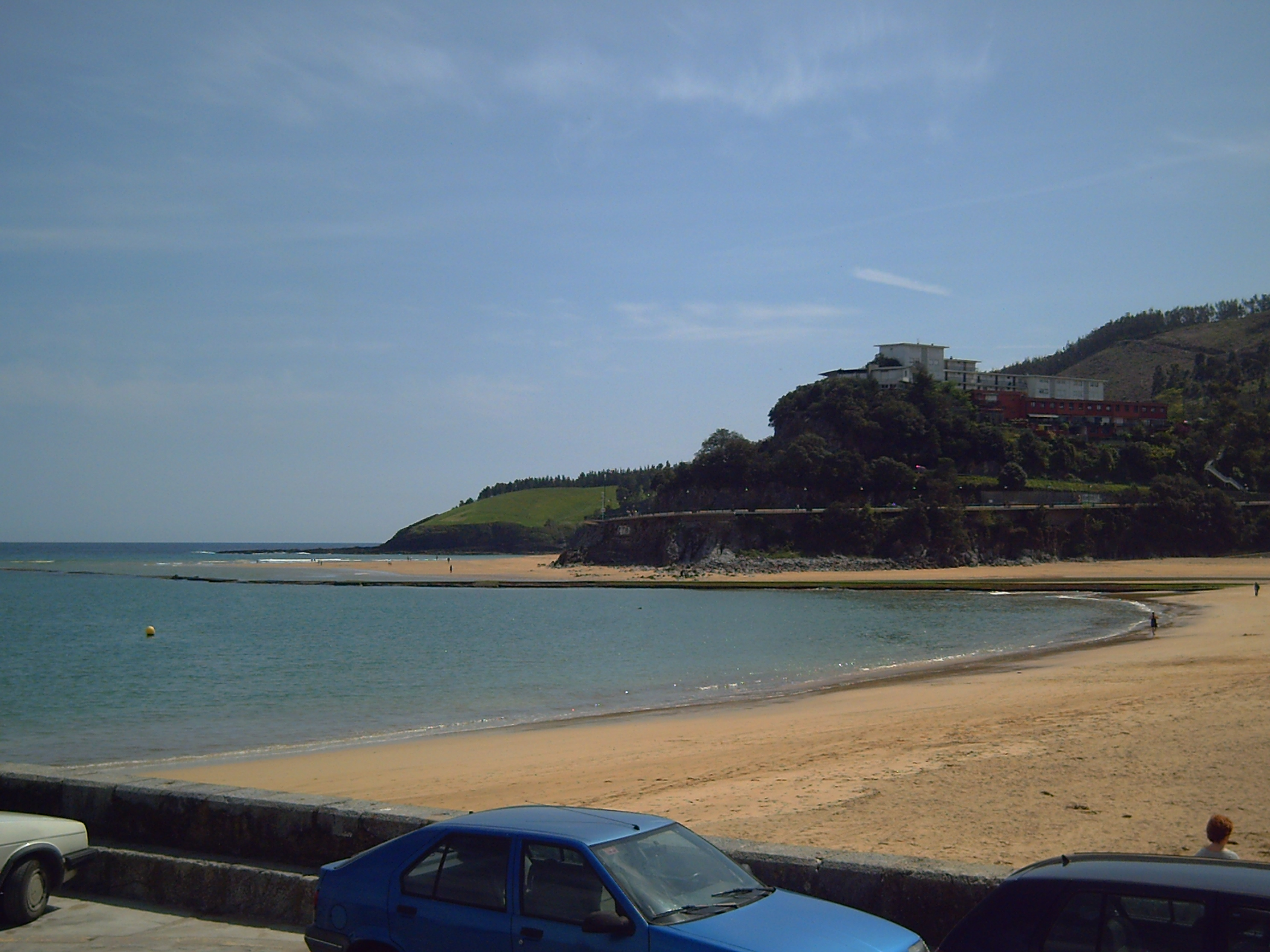 Beach of Lekeitio